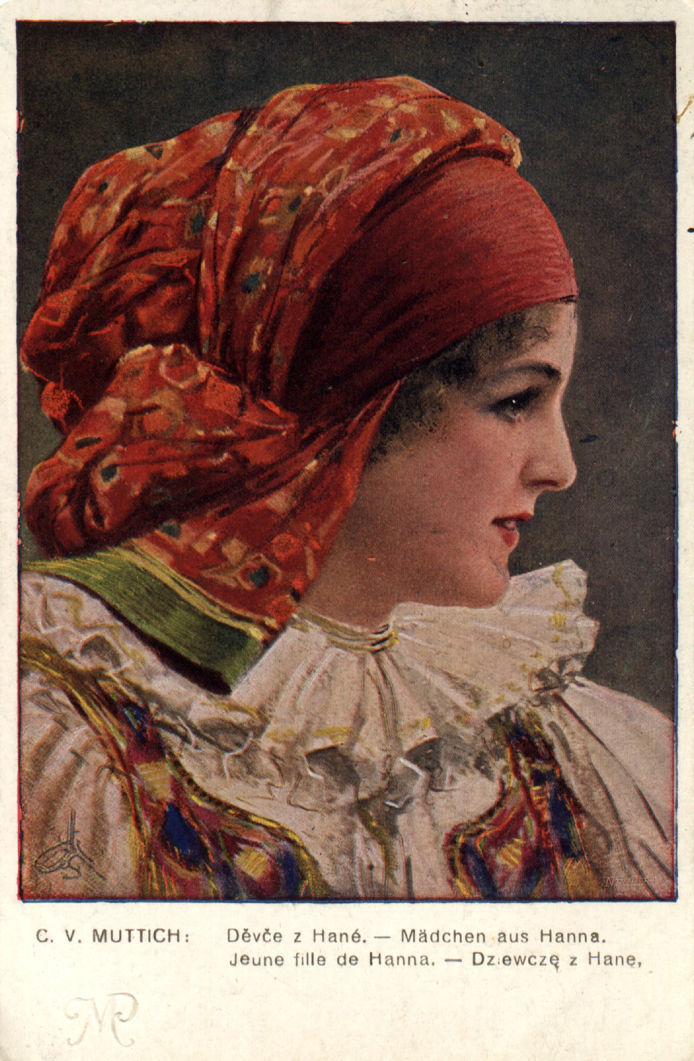 C.V.Muttich: Girl of Haná